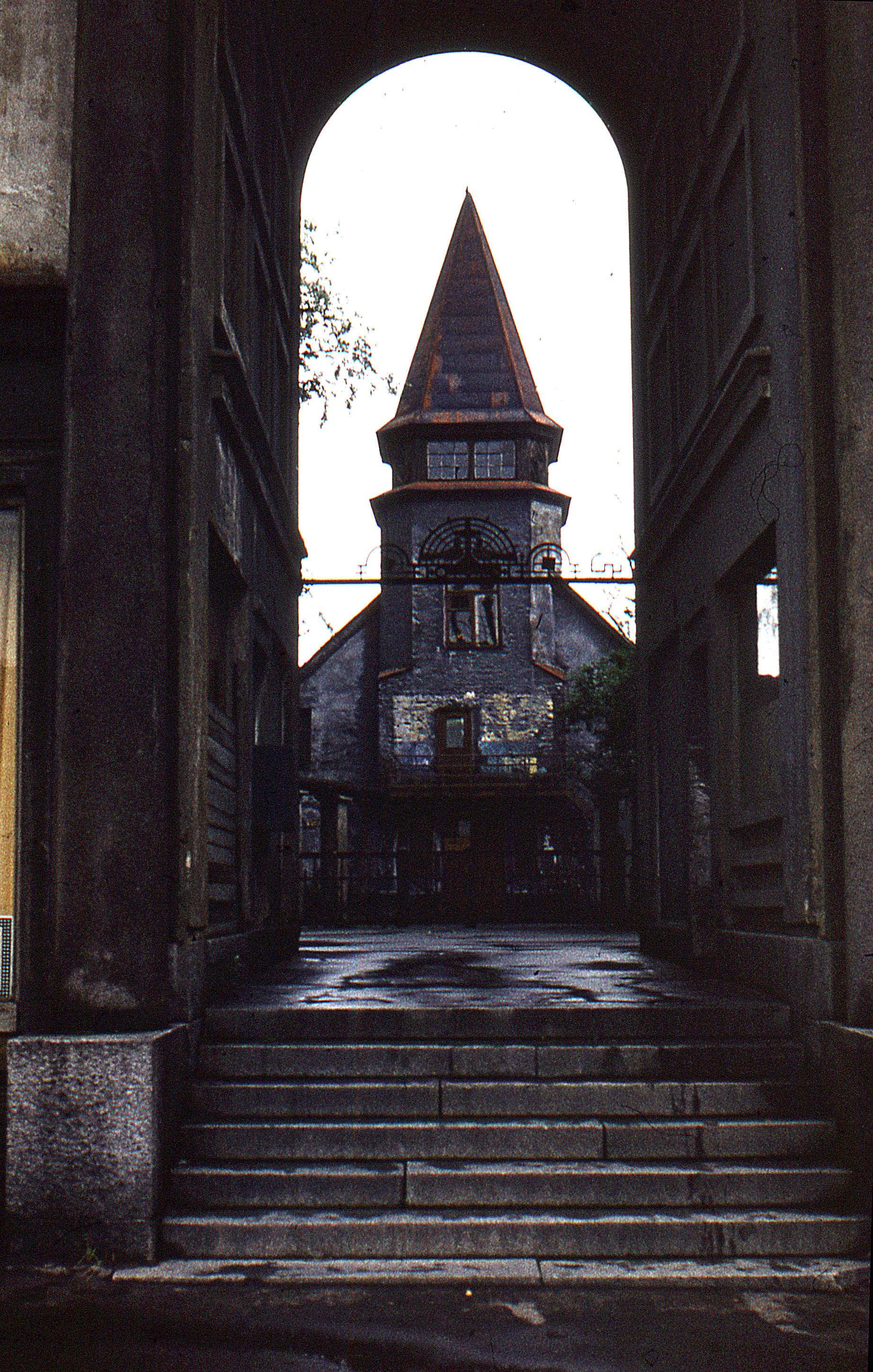 Town Sortavala. View to building of St. John the Evangelist's churches by Administration of Finnish Orthodox Church. Builded in 1931, arch. Juhani Viisteen.